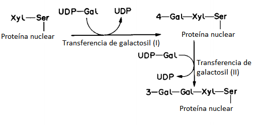 Galactosil transfers